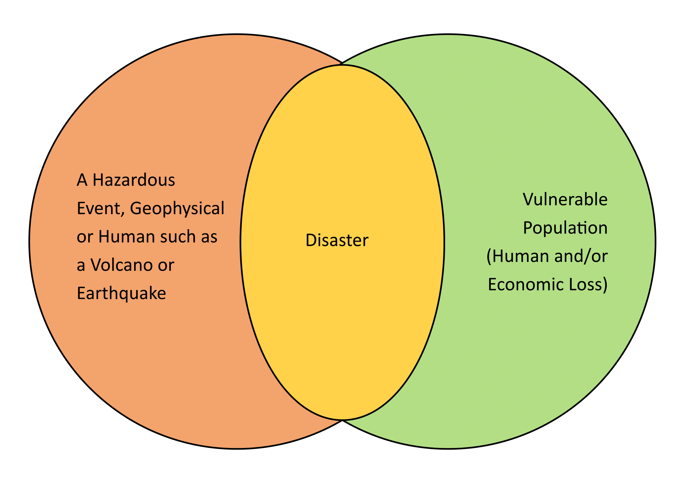 Degg's Model showing the intersection of a hazardous event and a vulnerable population resulting in a disaster.